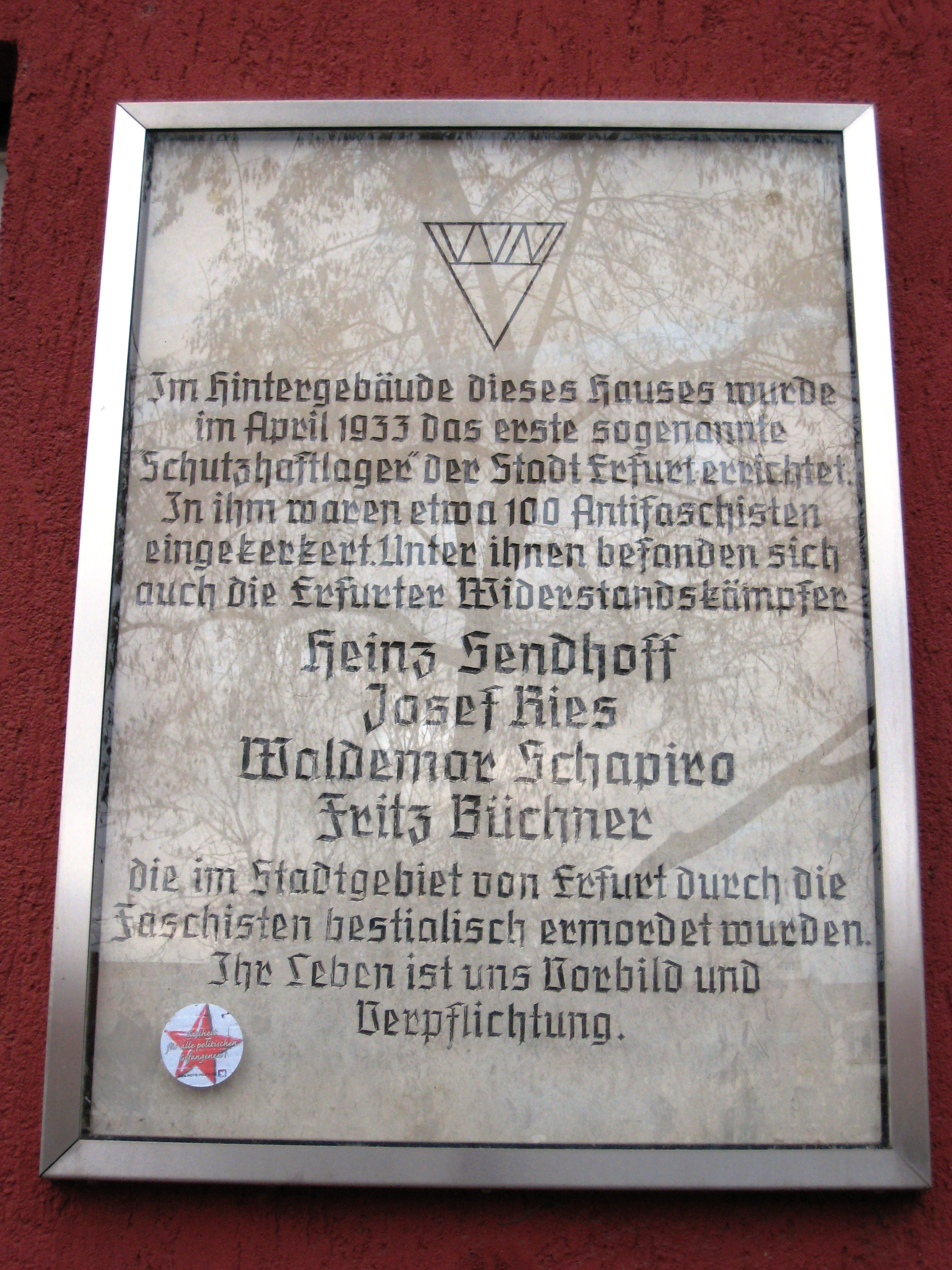 Former SA prison in Erfurt Feldstrasse 18